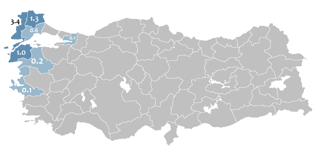 This map shows the distribution of people who spoke Pomak in 1965's Turkey.